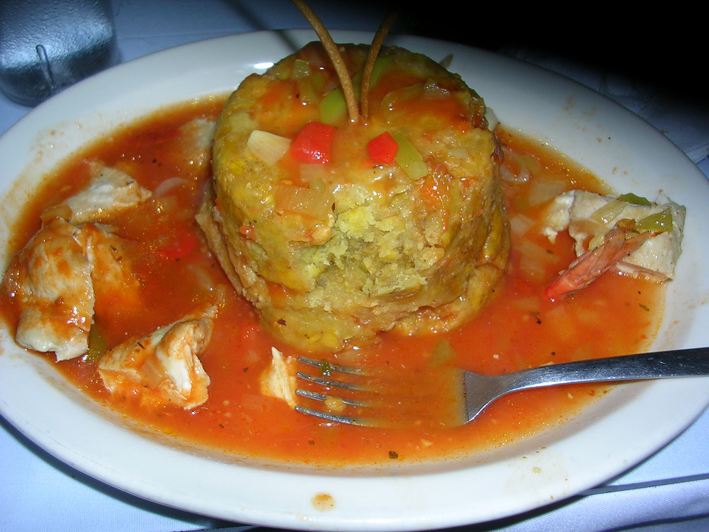 Mofongo is a popular Puerto Rican dish, made from fried green plantains or fried yuca, seasoned with garlic, olive oil and pork cracklings, then mashed. Mofongo is usually served with a fried meat and a chicken broth soup.